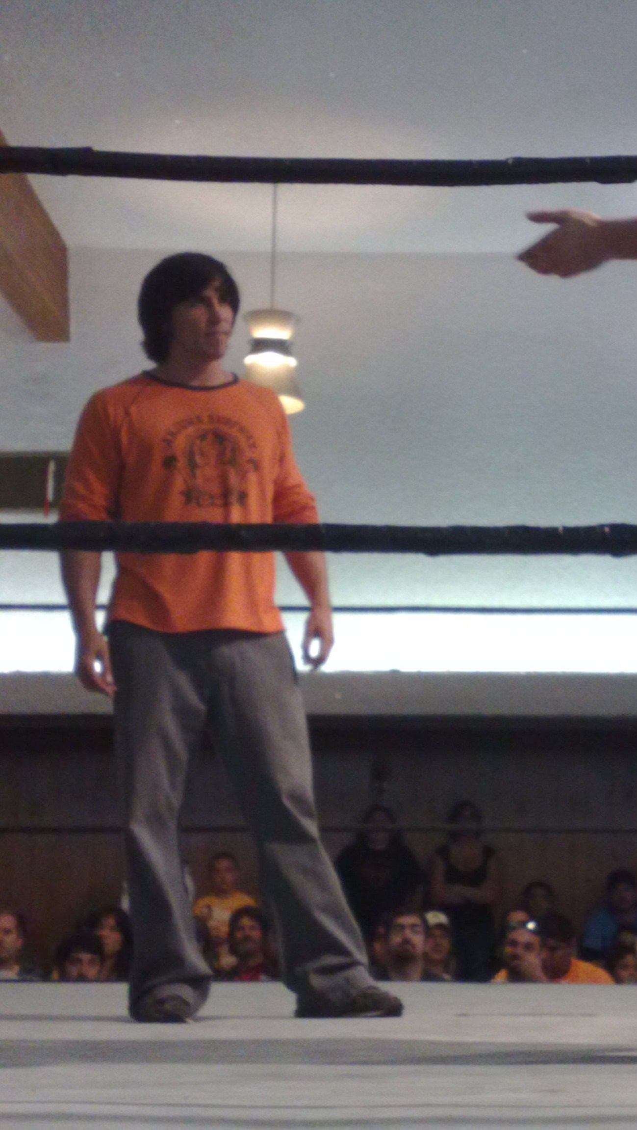 Professional wrestler Paul London at Pro Wrestling Guerrilla's DDT4 show on May 22, 2009.